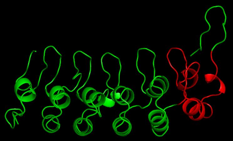 ikba degron